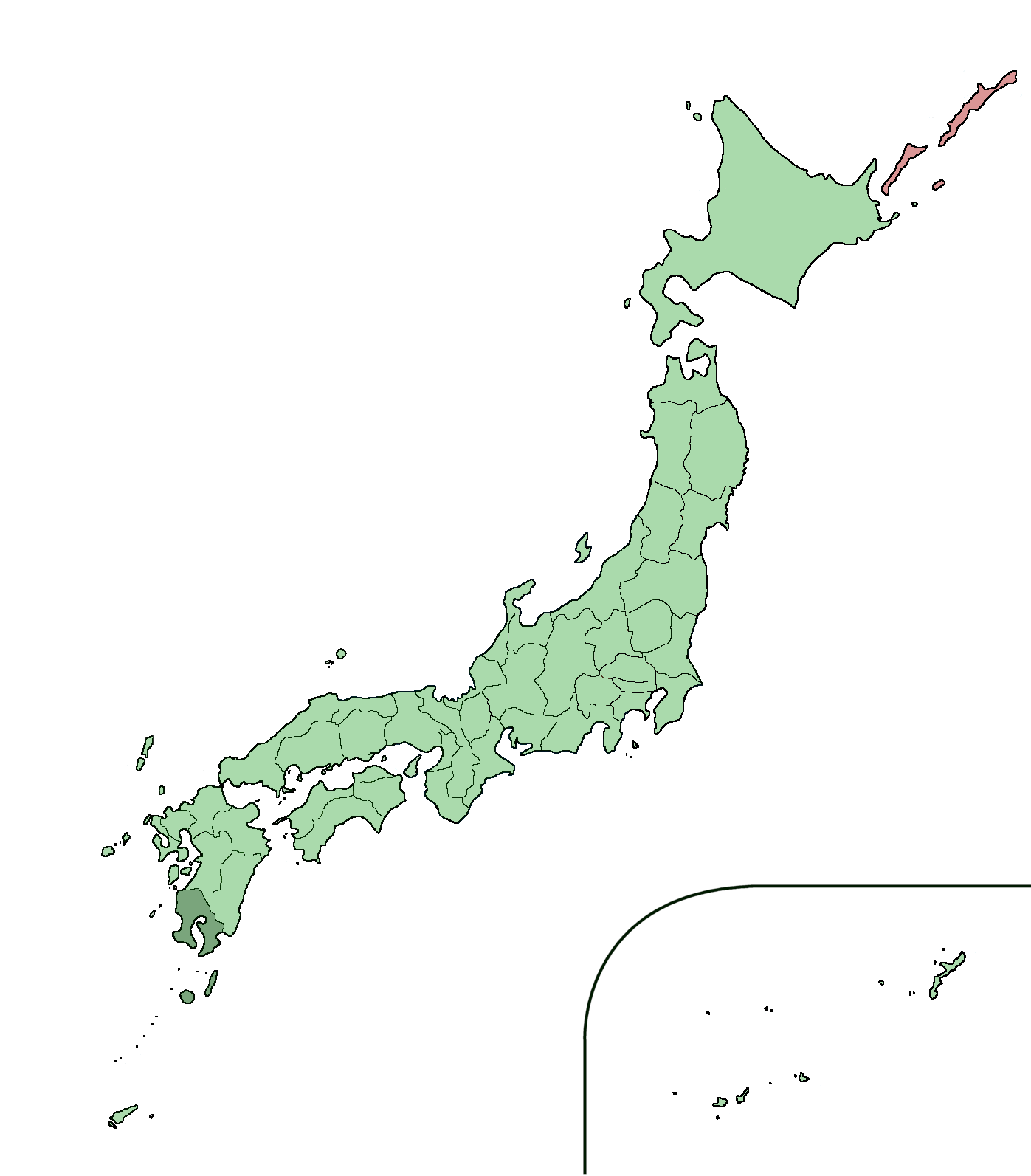 Large size map of Japan with Fukuoka highlighted, self made but originally based on a japanese mapbook.